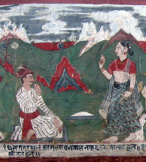 Kesh Chandra having lunch as his sister looks on, detail from a scroll painting dated 1223 AD from Kathmandu, Nepal.